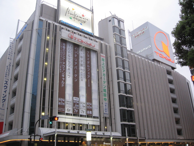 The Tokyu Department Store Main stores in Shibuya, Tokyo.